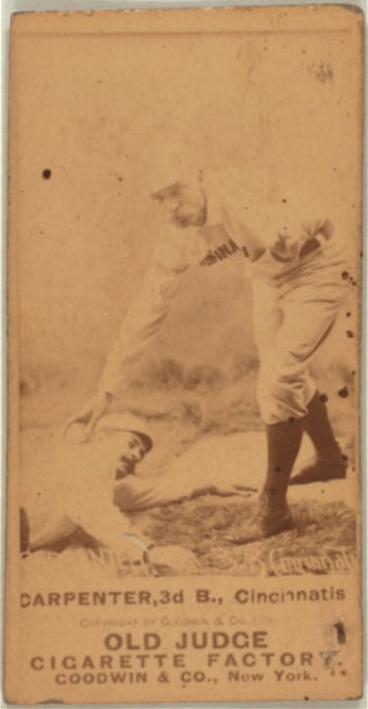 Baseball player Hick Carpenter